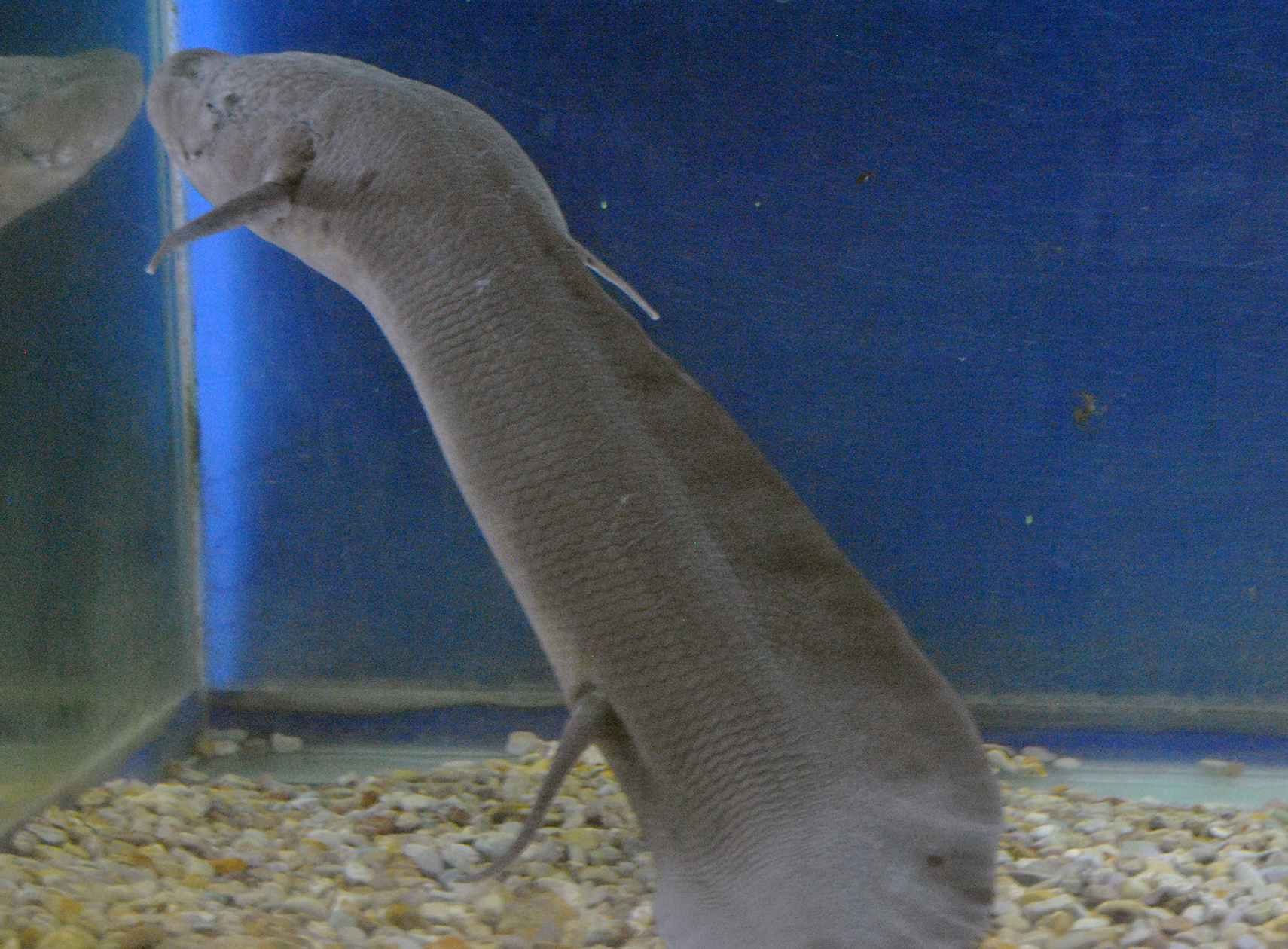 Lungfish in Pata Zoo